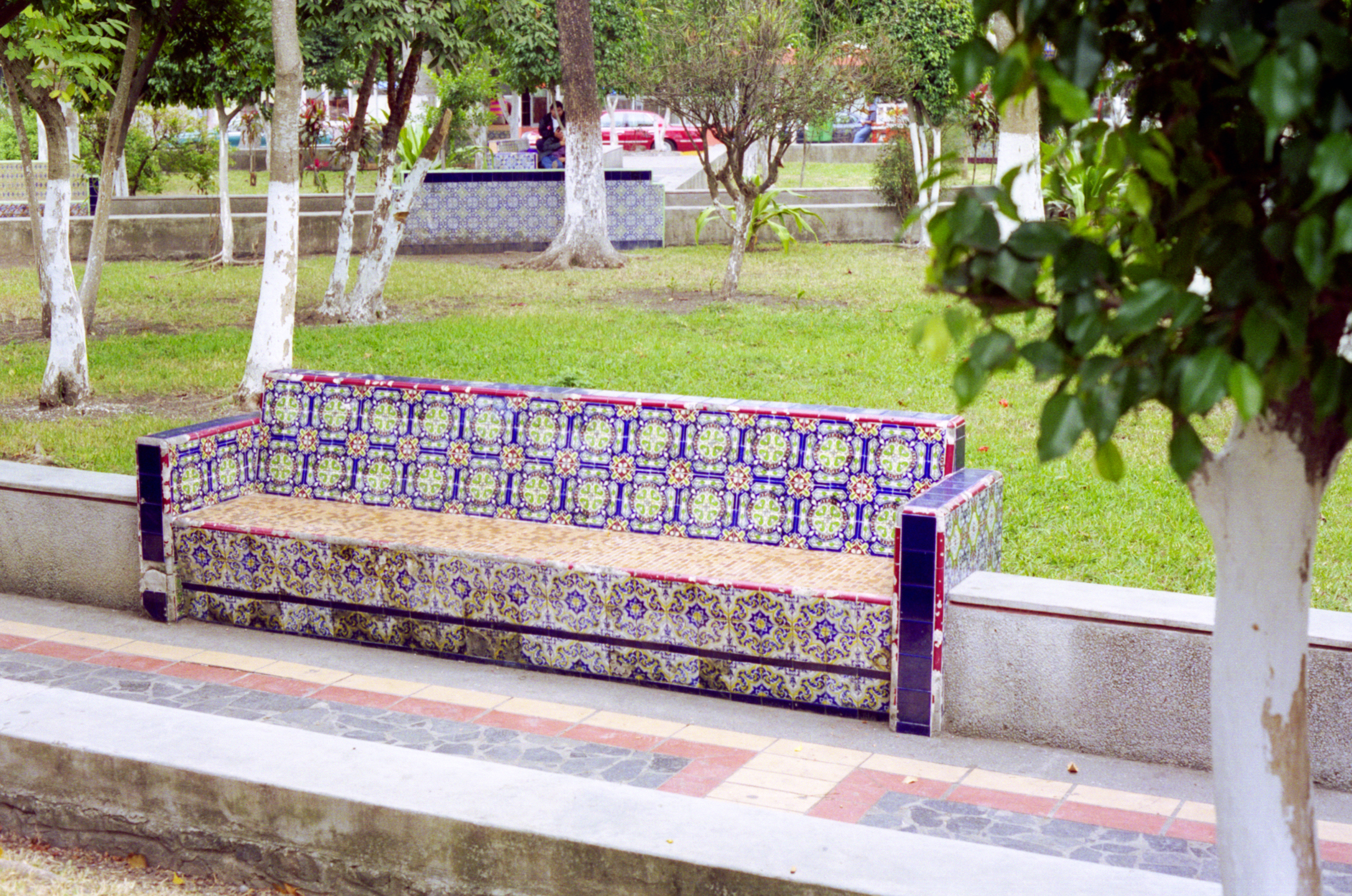 Marble bench in Juarez Park, Poza Rica, Veracruz, Mexico